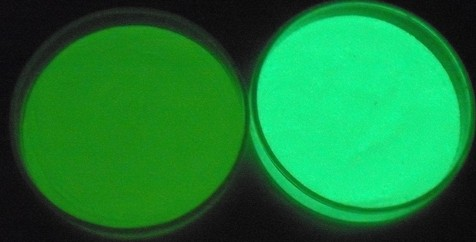 Phosphorescent pigments in the dark